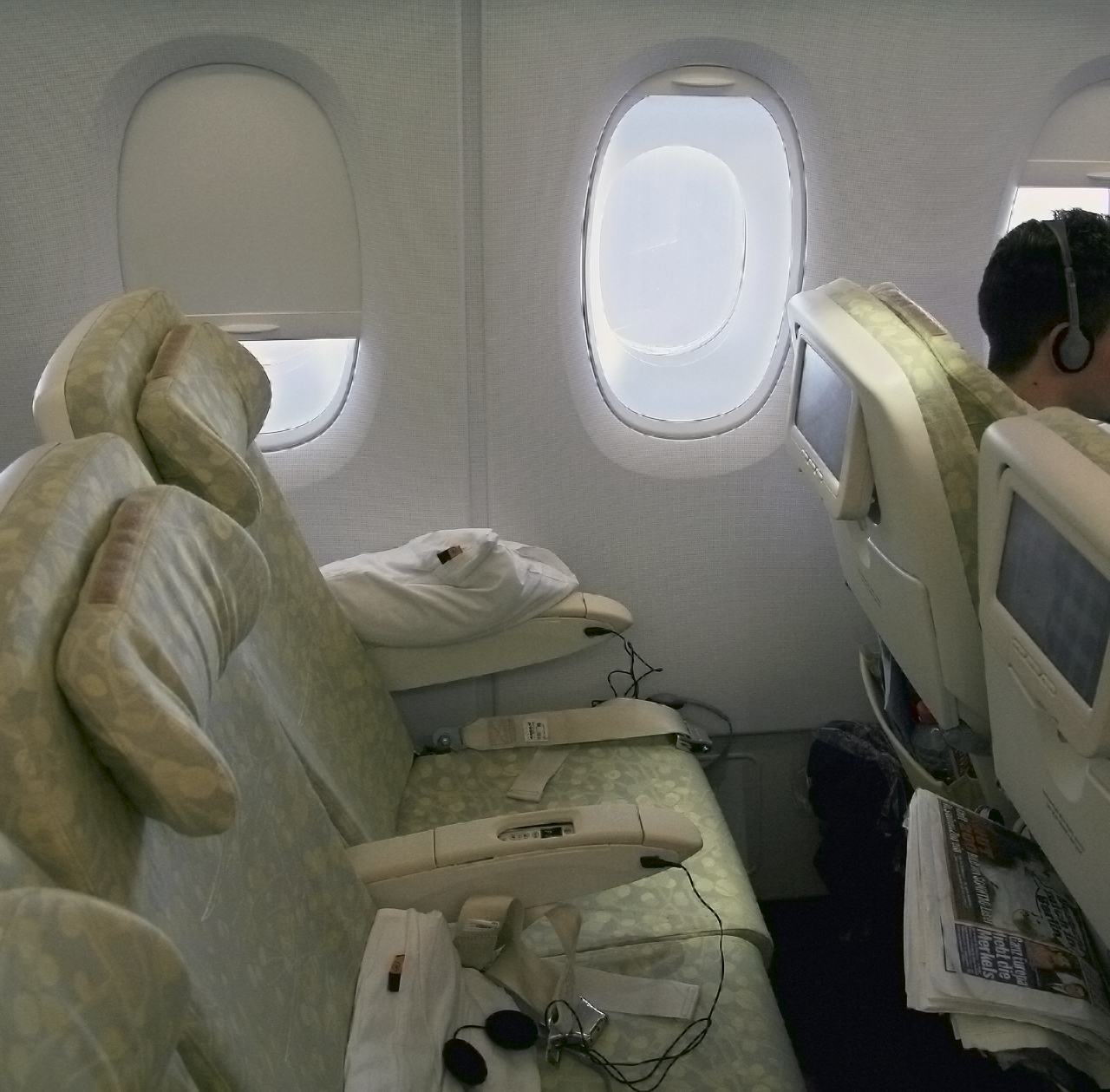 A380-800 Frankfurt/Main - Washington D.C. Route Proving Flight by Lufthansa and Airbus. AIB 301 (LH8948)